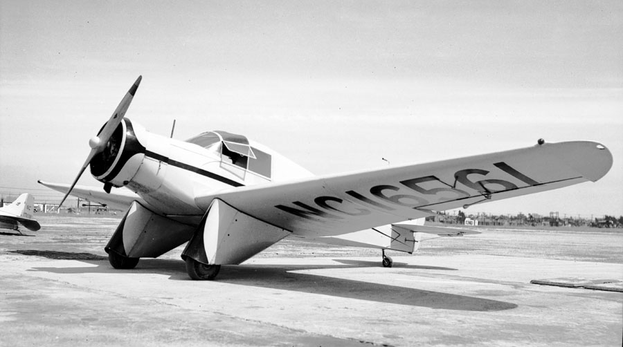 At San Francisco Bay Airdrome, Alameda, CA in 1939.